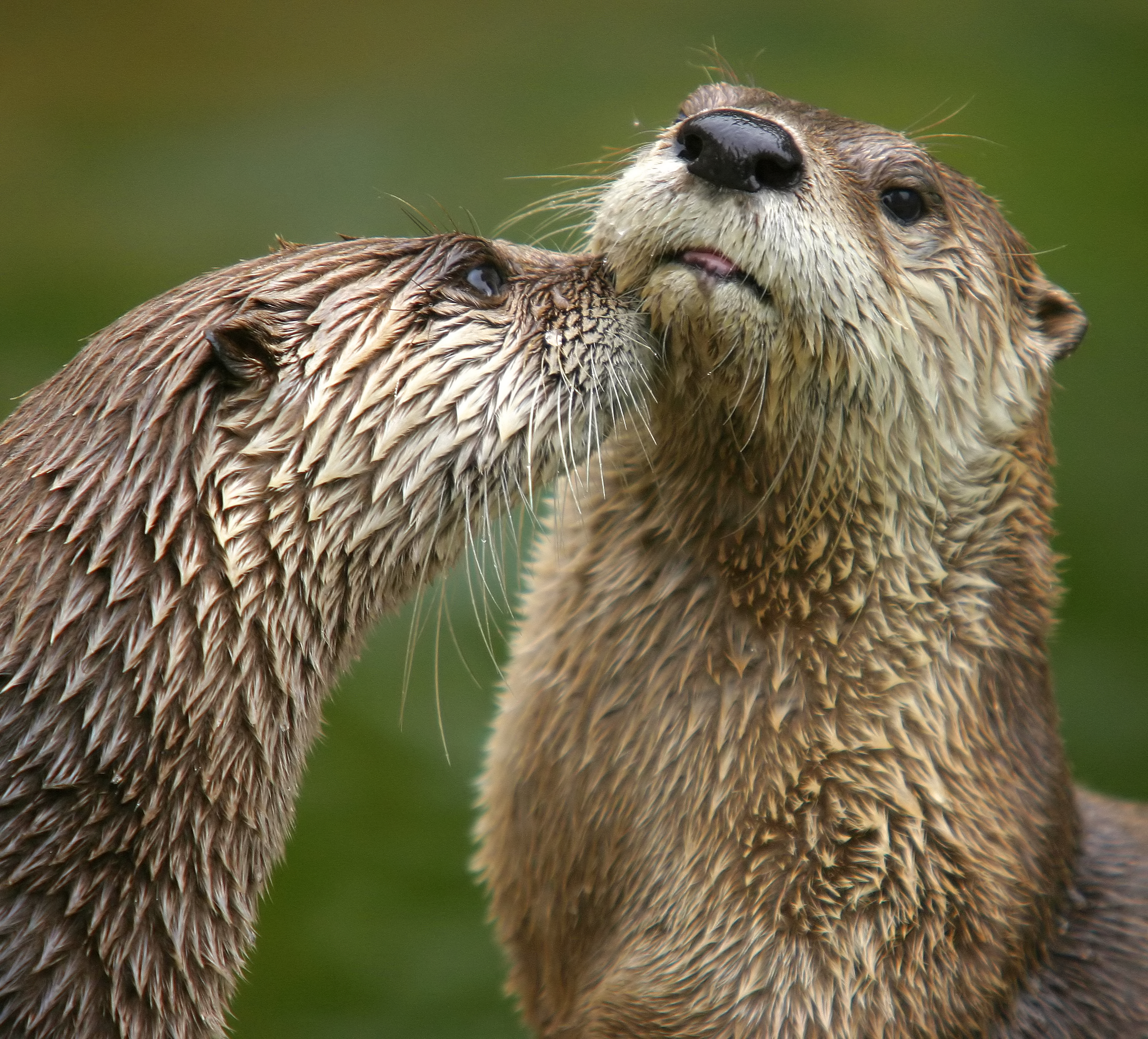 North American River Otters, Lontra canadensis (per Schreber, 1777. More commonly used, but allegedly incorrect latin name: Lutra canadensis). I took the photo in San Francisco Zoo on August 29, 2005.